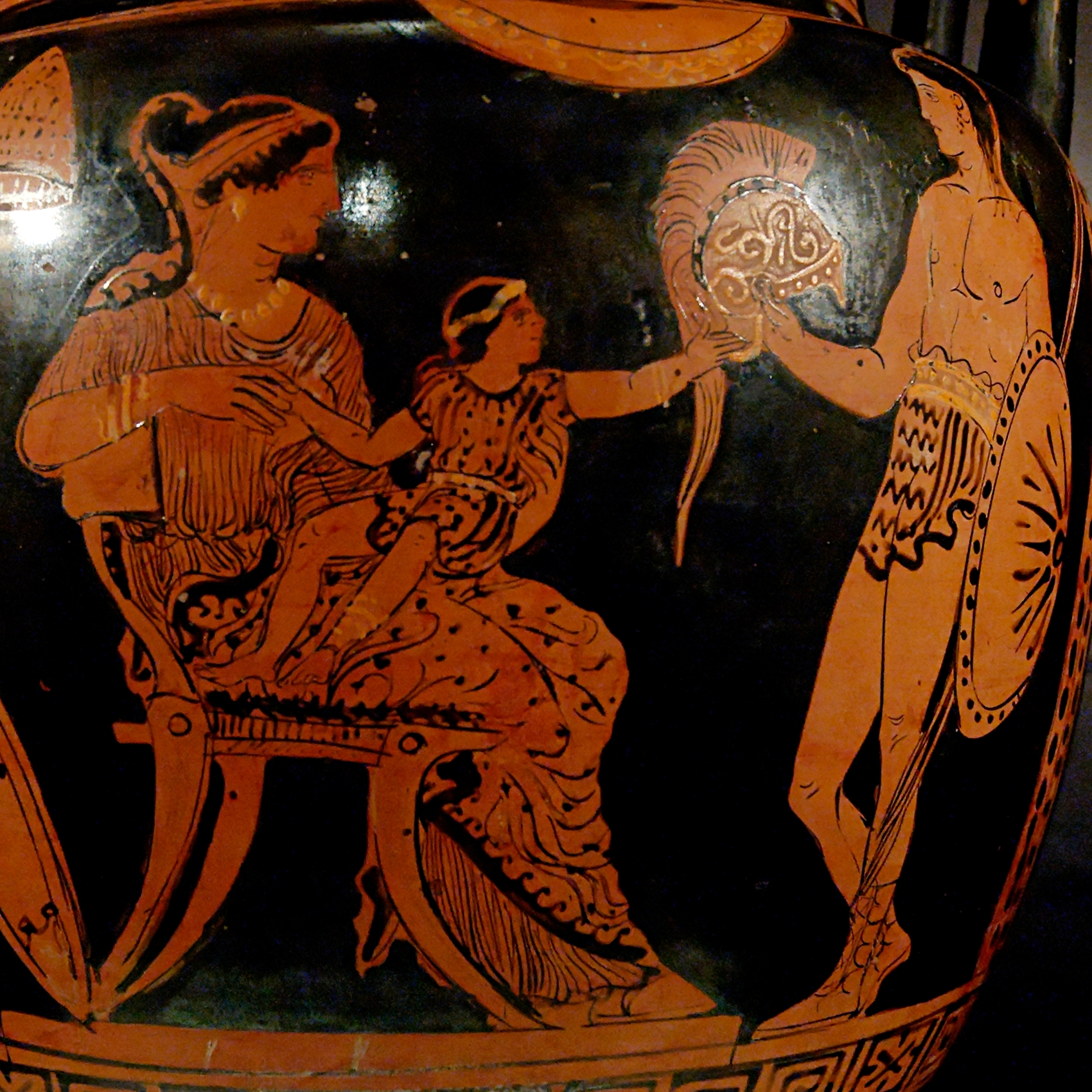 Hector's last visit to his family before his duel with Achilles: Astyanax, on Andromache's knees, stretches to touch his father's helmet. Apulian red-figure column-crater, ca. 370–360 BC. From Ruvo. Stored in the Museo Nazionale of the Palazzo Jatta in Ruvo di Puglia (Bari).